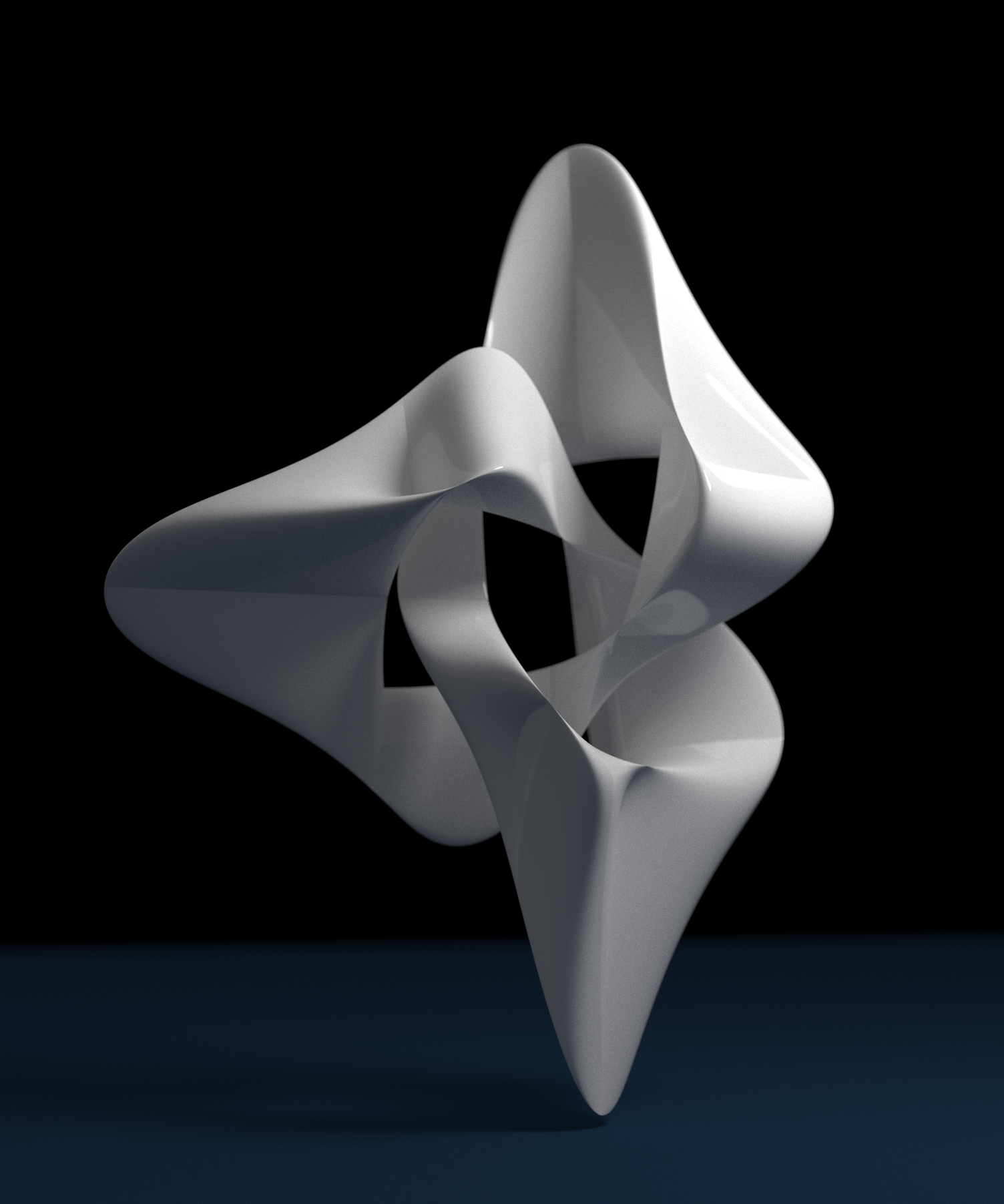 Self-made with PlotOptiX package for ray tracing in Python.